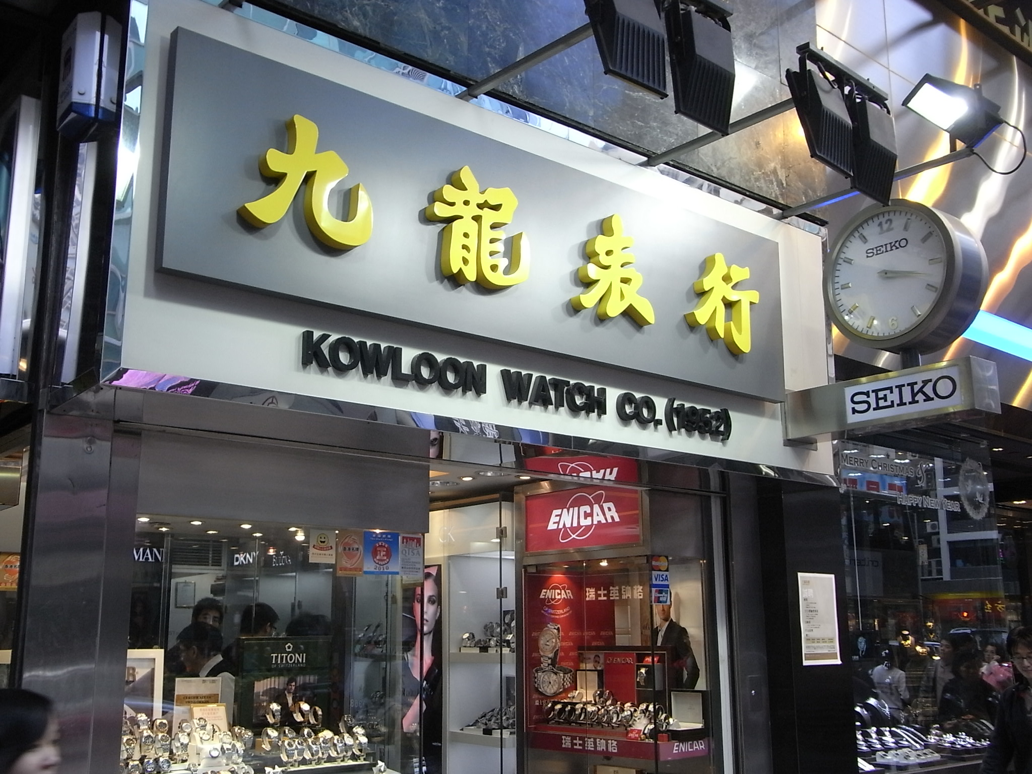 旺角 信和中心